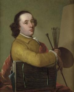 Zelfportret aan de ezel